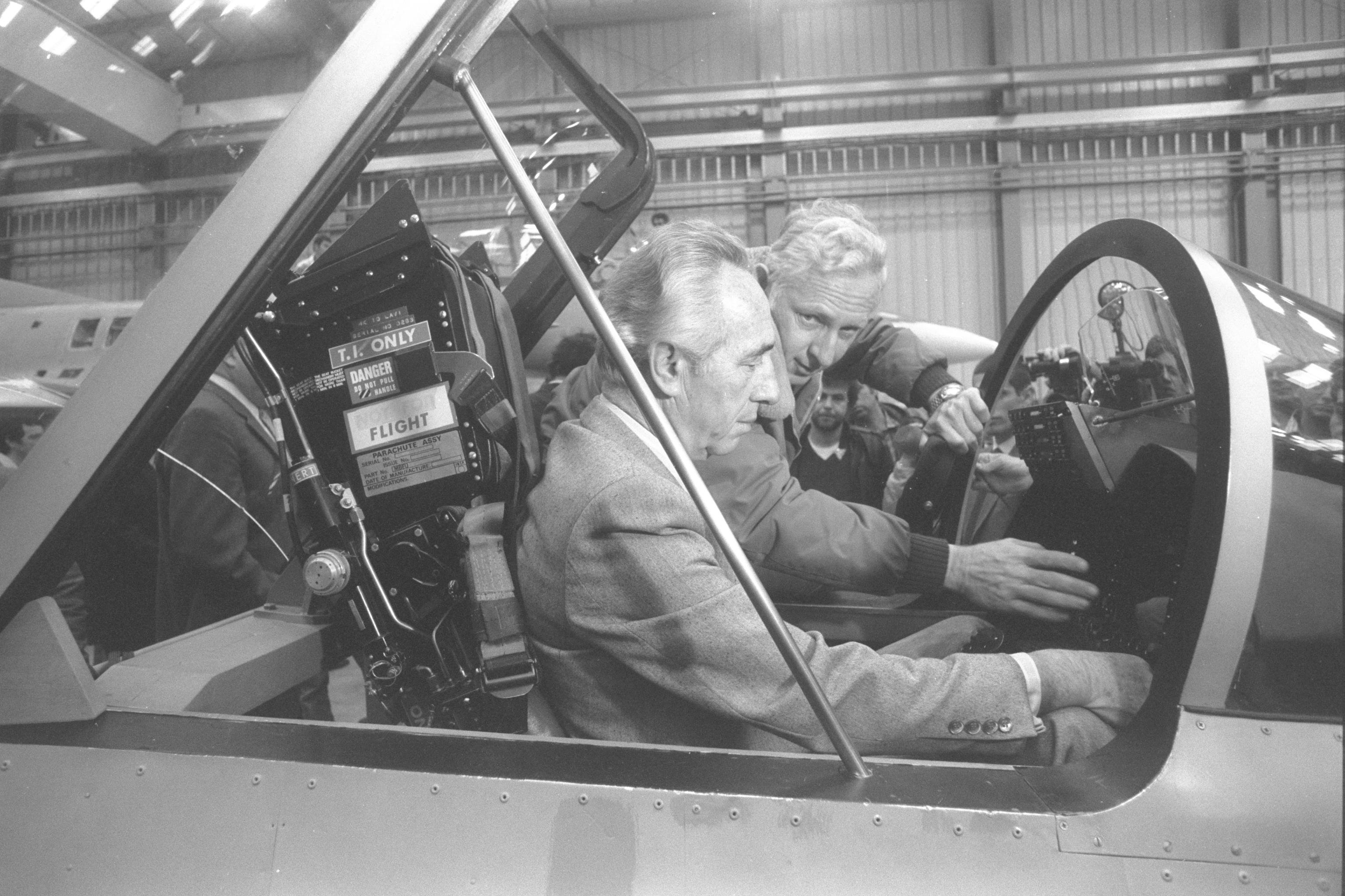 Prime Minister Shimon Peres sits in the mock-up cockpit of the Lavi fighter at the Israel Aerospace Industries headquarters in Lod. Lapidot introducing Prime Minister Shimon Peres to the IAI Lavi, 1985.